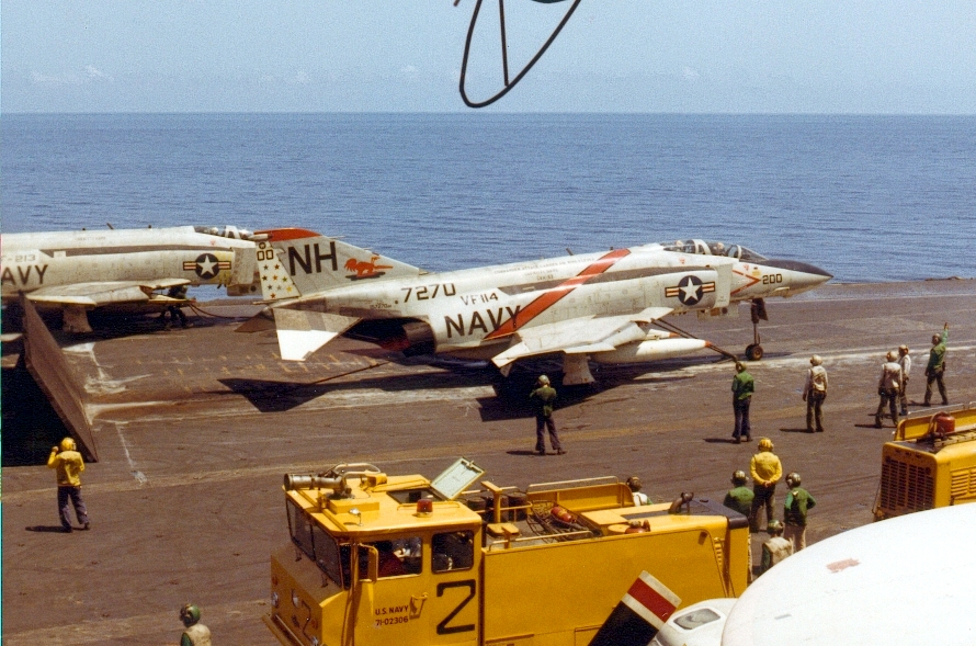 A McDonnell Douglas F-4J Phantom II (BuNo. 157270) of fighter squadron VF-114 Aardvarks about to launch from the aircraft carrier USS Kitty Hawk (CVA-63) during the deployment to Vietnam between 06 Nov 1970 and 17 Jul 1971. The aircraft "NH-200" was the personalized plane of the Commander Air Group (CAG) of Attack Carrier Air Wing Eleven (CVW-11). Note the differently coloured stars on the tail fin, which repesent the different squadrons of CVW-11. A F-4J of VF-213 Black Lions is also visible.